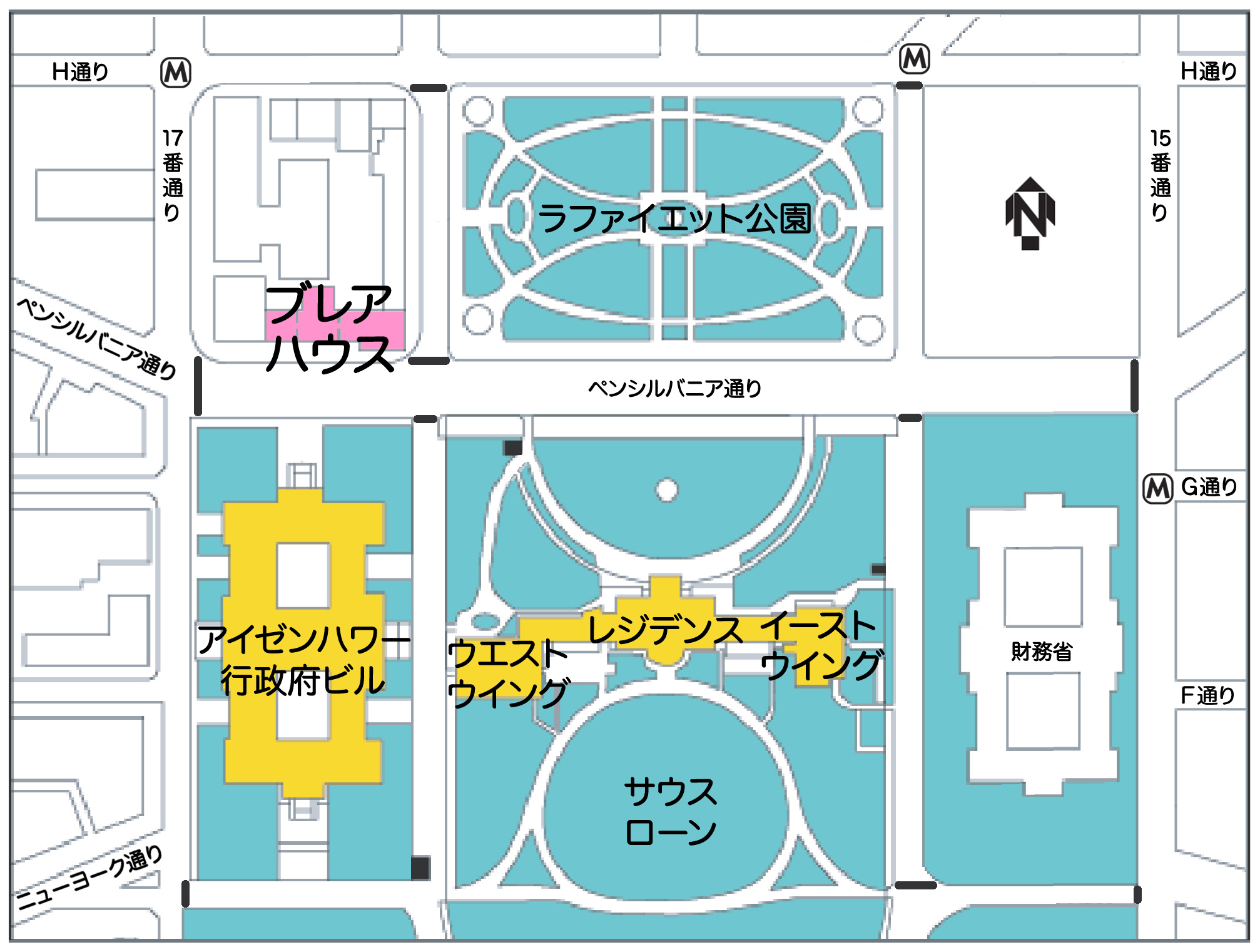 White House/Blair House Area Map